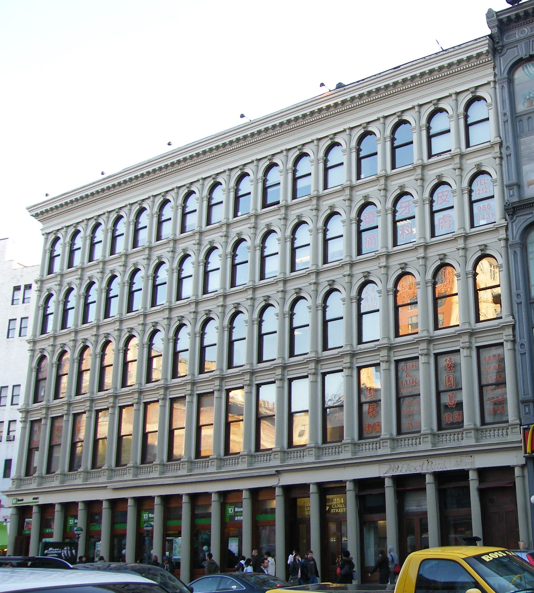 Looking south at en:254 Canal Street, New York City, on National Register of Historic Places, NYCLPC designation 1985.